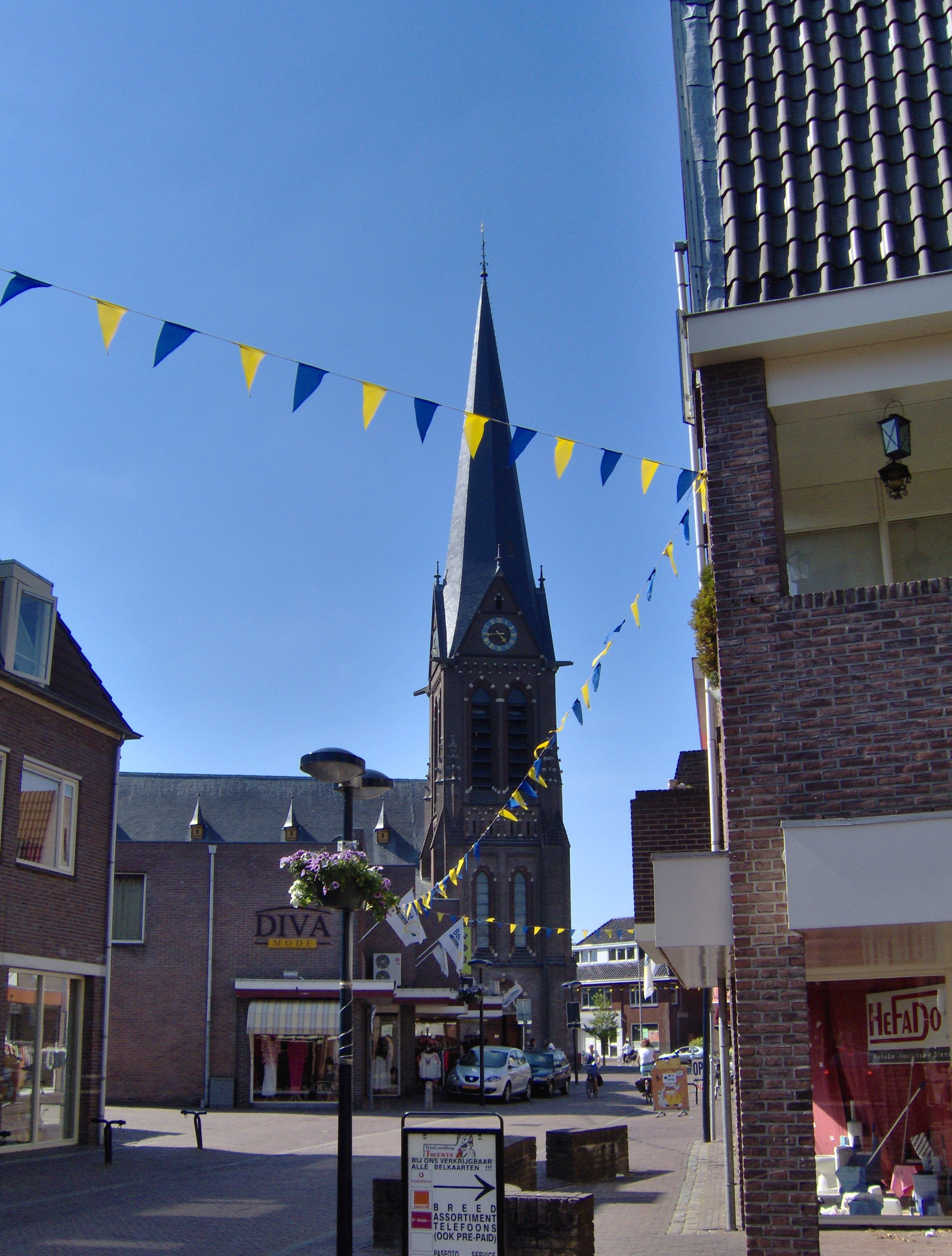 The St. Stephanus Church in Borne, in the province of Overijssel, The Netherlands